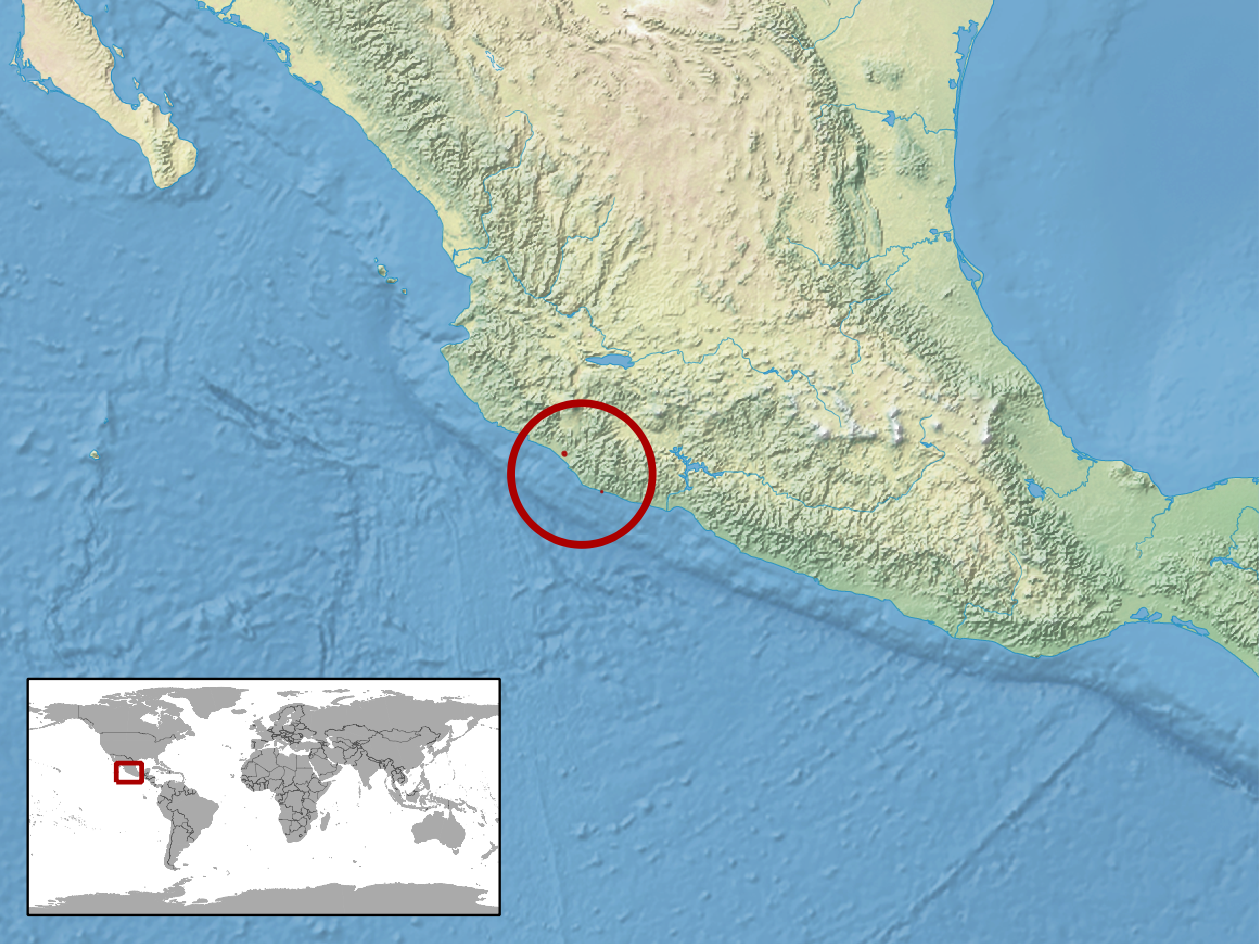 geographic distribution of Porthidium hespere (Native: Mexico)